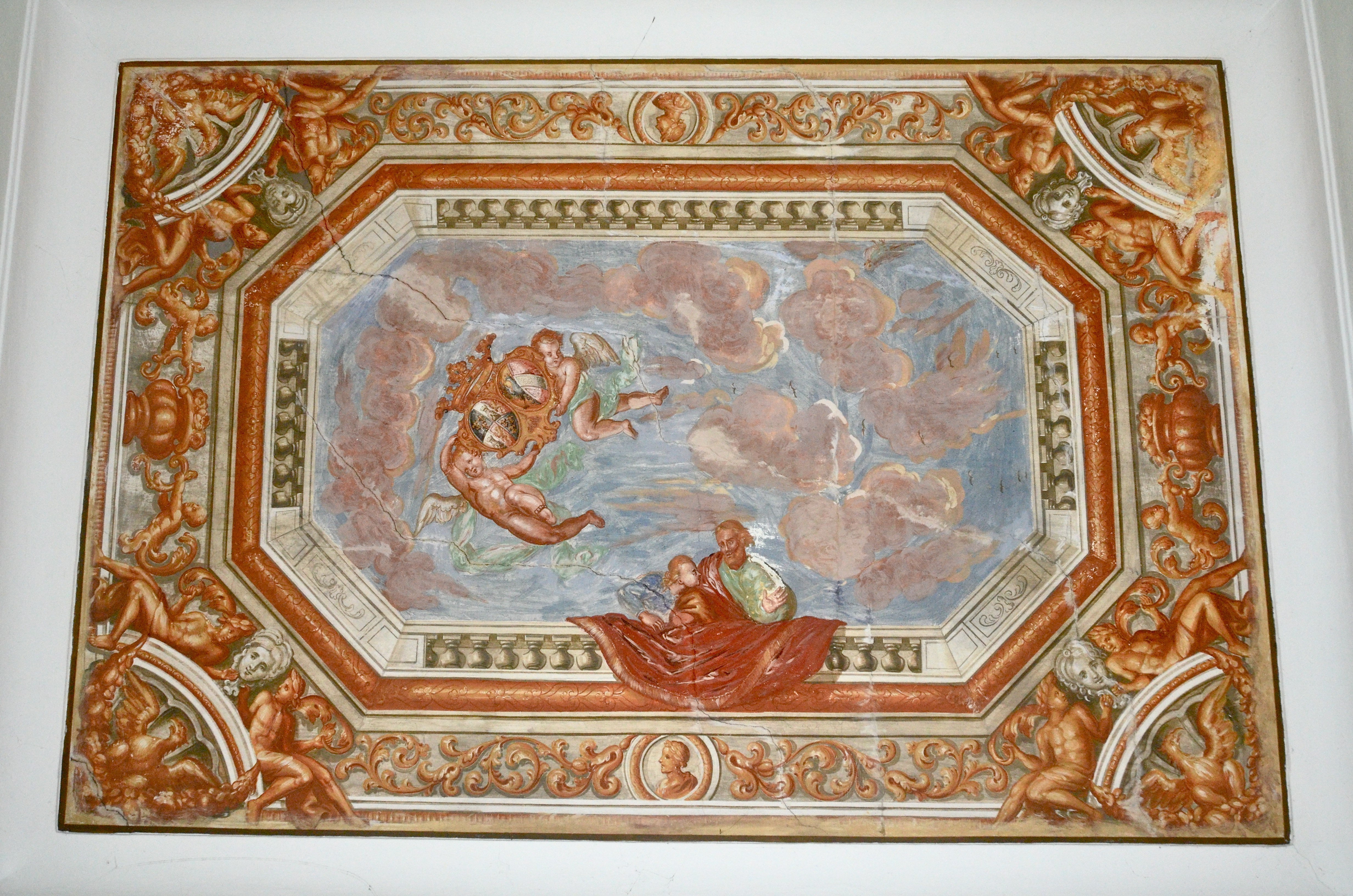 Rococo ceiling fresco in the staircase of castle "Toeltschach" (owner: family Toff) in Töltschach, market town Maria Saal, district Klagenfurt Land, Carinthia, Austria, EU